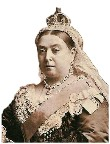 Queen Victoria, as depicted in the comic strip "The New Adventures Of Queen Victoria" (from a photograph by Bassano, 1887, in the Public Domain).